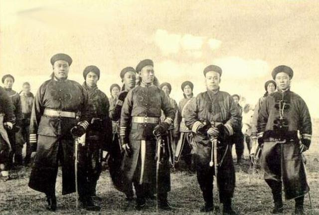 Qing Imperial soldiers